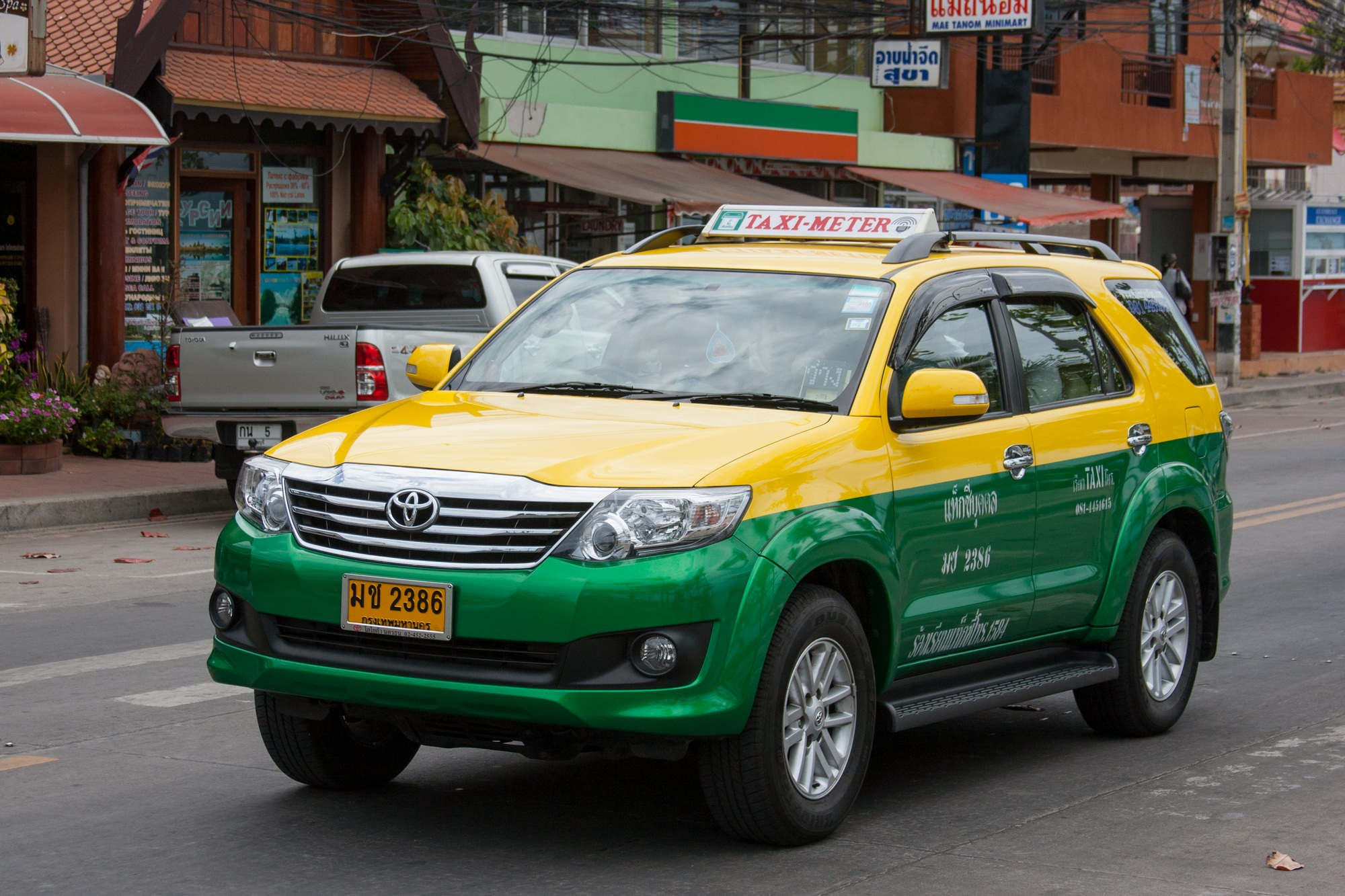 Toyota Fortuner taxi in Pattaya, Chonburi province, Thailand